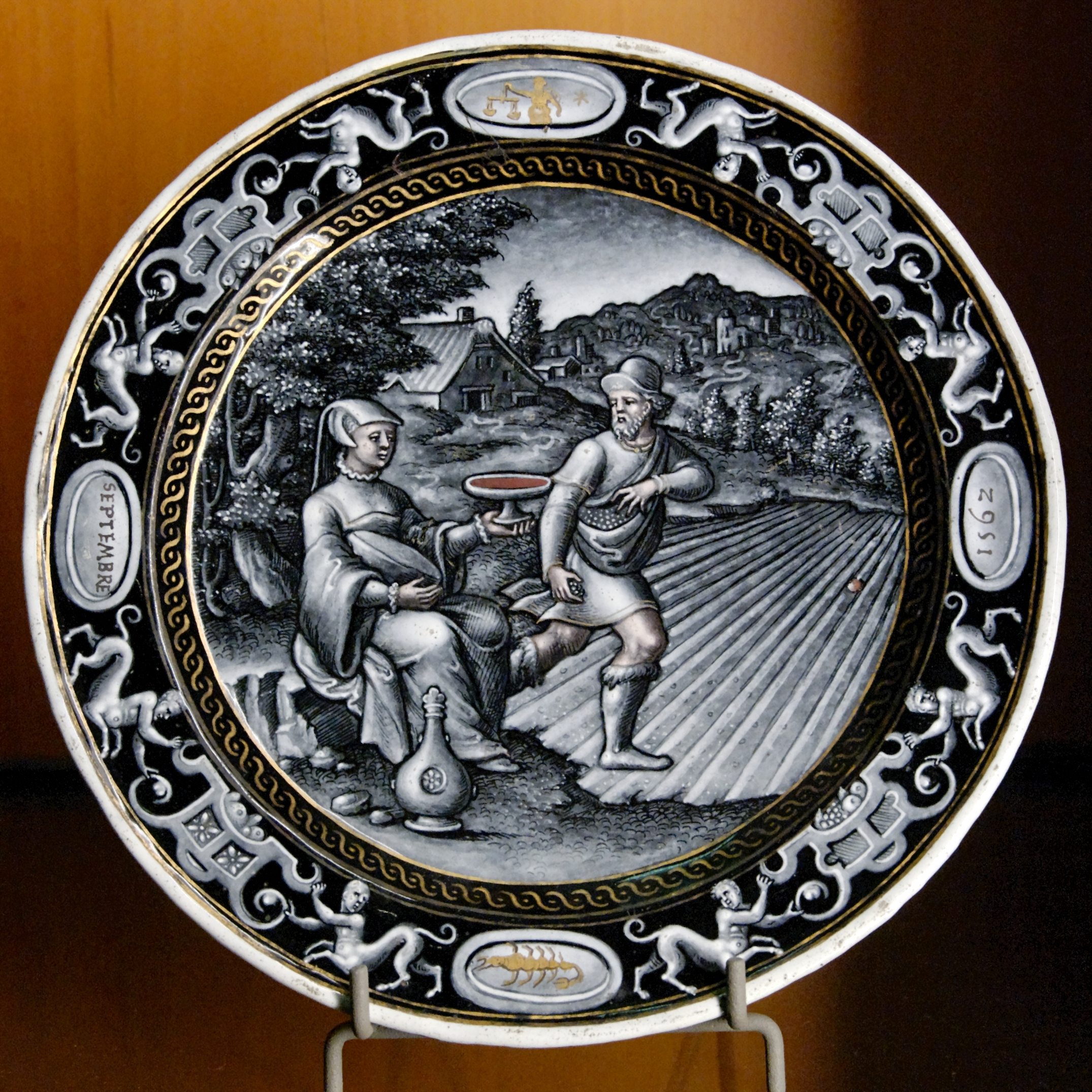 September, from a series of twelve plates representing the months of the year. Limoges grisaille painted enamel, 1562.